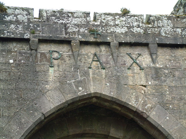 Glenstal Abbey. "Pax" over main entrance to Glenstal Abbey, Murroe, Co. Limerick. Benedictine Abbey and School.